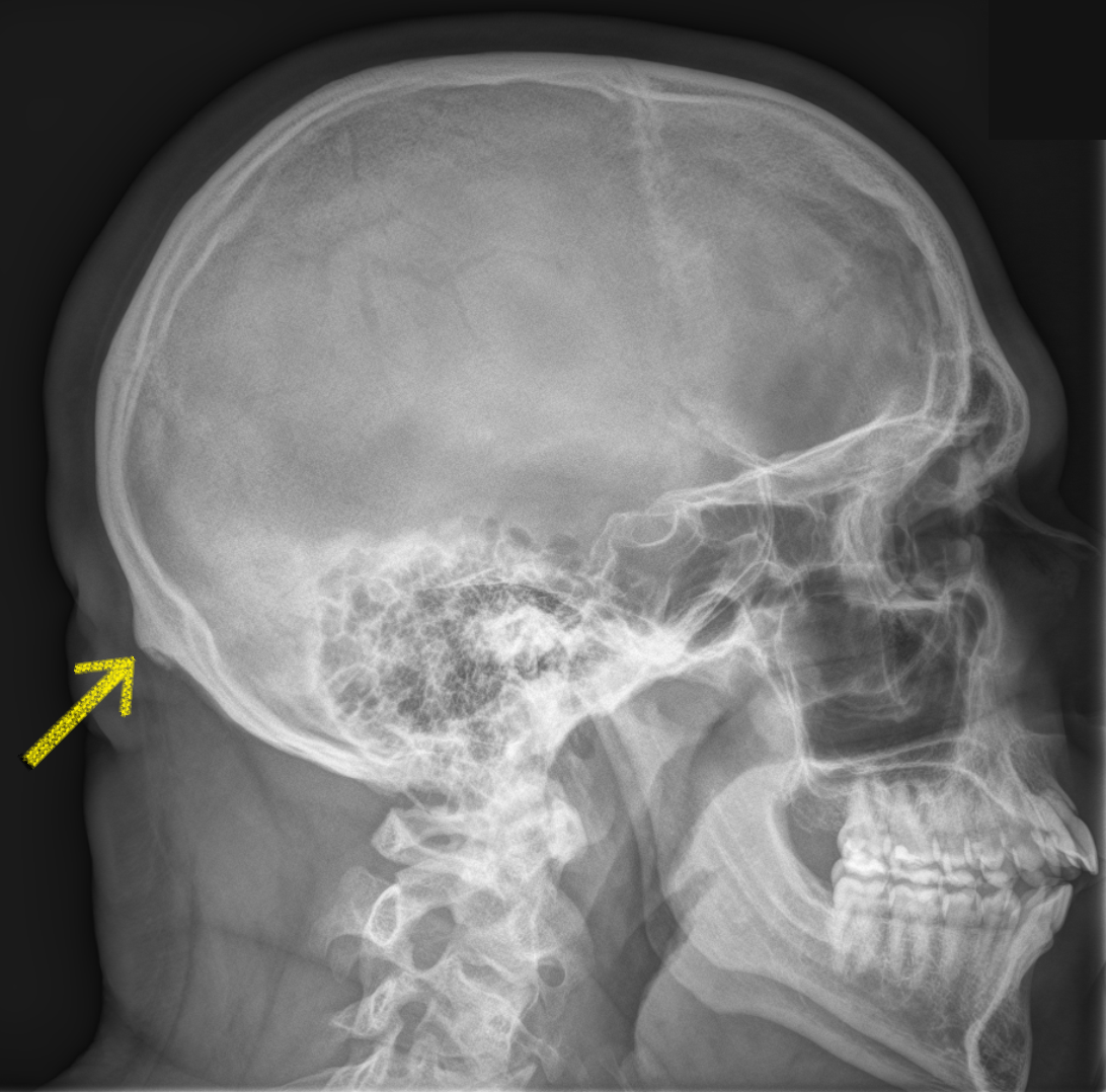 X-ray of a human skull in lateral view. The arrow pointing inion.